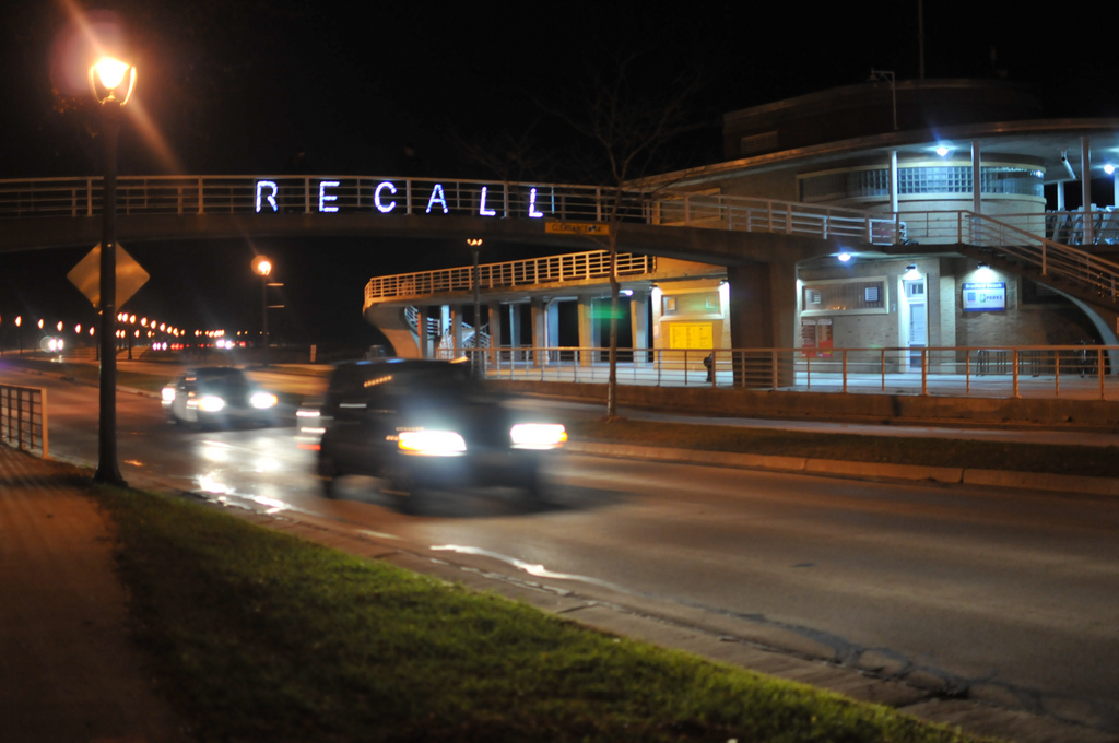 "Holders of the Light" with lighted letter signs on a pedestrian walkway above Lincoln Memorial Drive, adjacent to Lake Michigan in Milwaukee, supporting the signing of petitions to recall Wisconsin Governor Scott Walker, December 13, 2011.